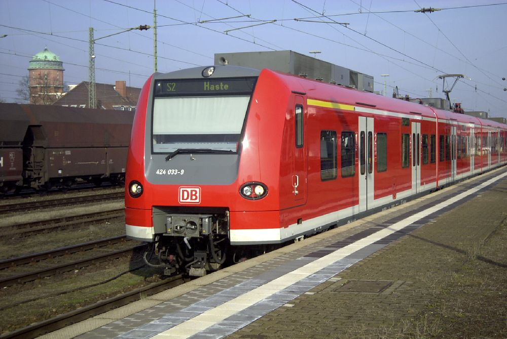 Hanover's suburban rail train type 423/424 at Nienburg (Weser) train station